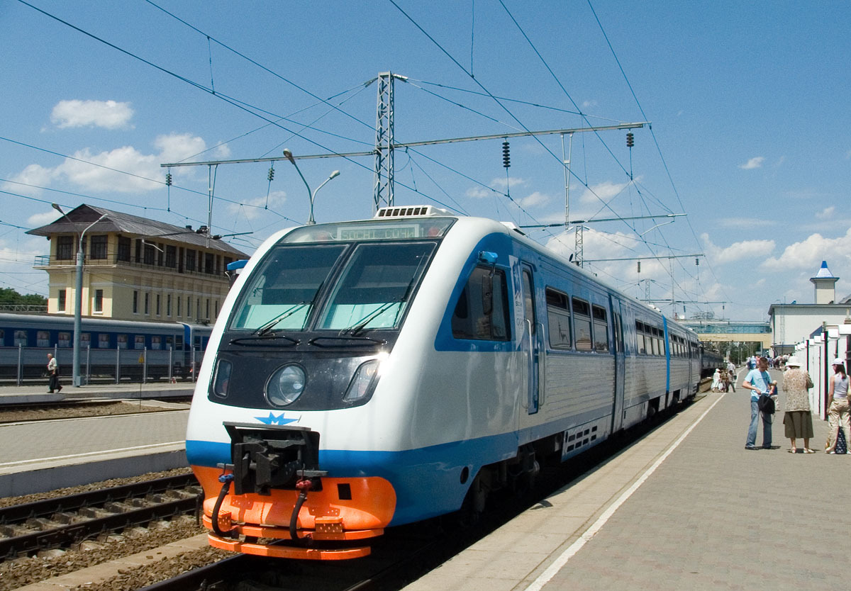 Railbus RA-2.